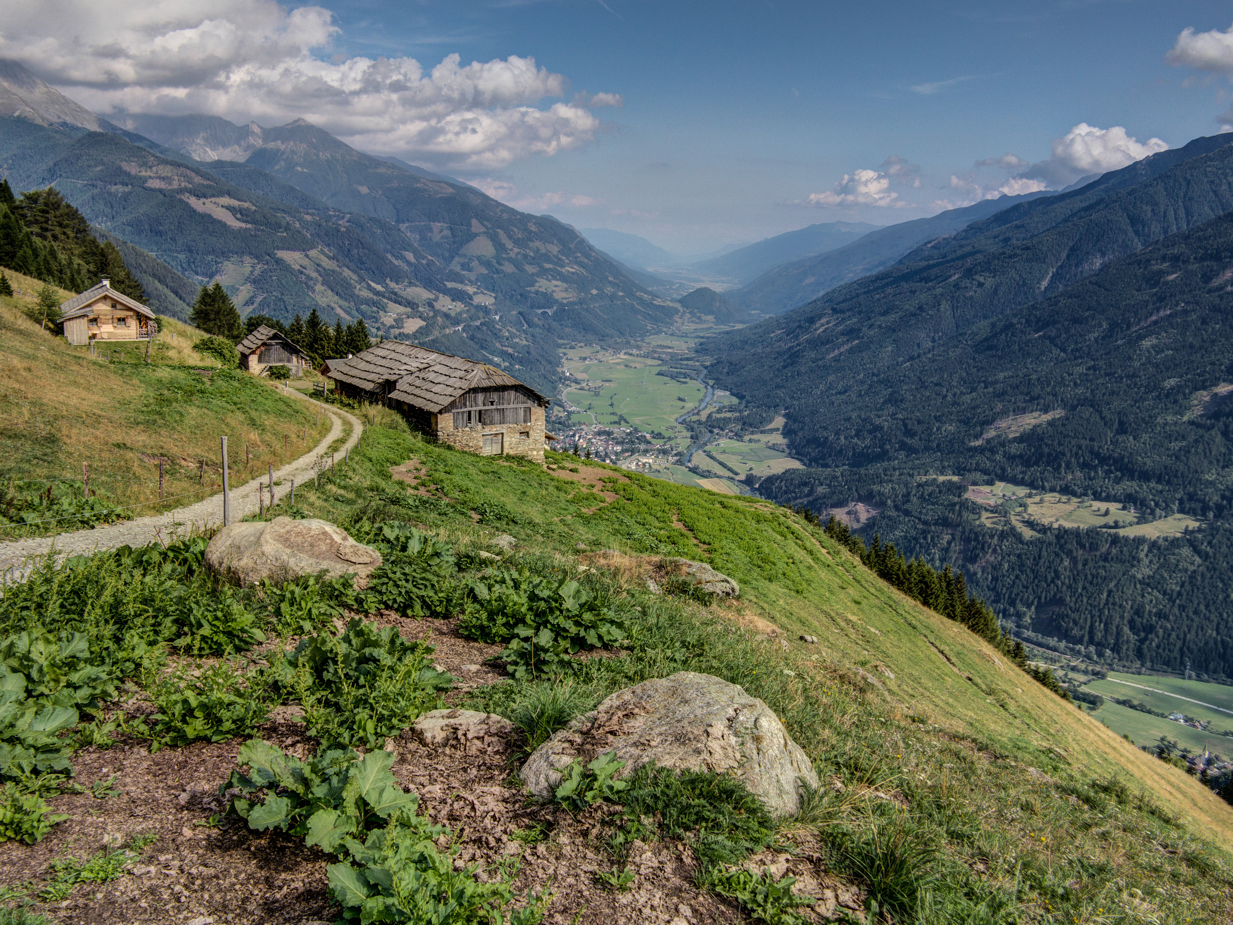 Stable in the early decay on the mountain Oberwolliggen above Semslach near Obervellach in Carinthia / Austria / EU. The barn is made ​​of stone and wood with a wood plank roof in the early stages of decay.